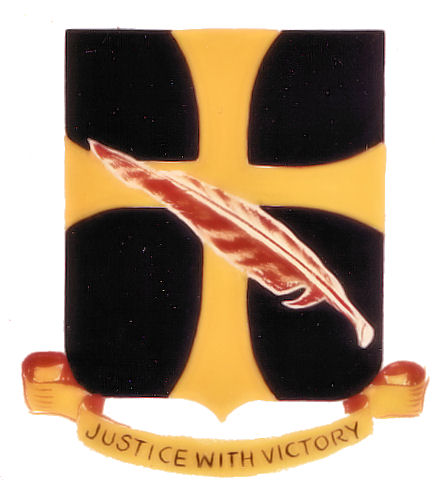 Emblem of the 95th Bombardment Group